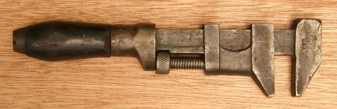 A monkey wrench manufactured in the late 1800's or early 1900's. The design is based on the Coes Wrench Company model, but this wrench is believed to have been manufactured in Cleveland, Ohio.